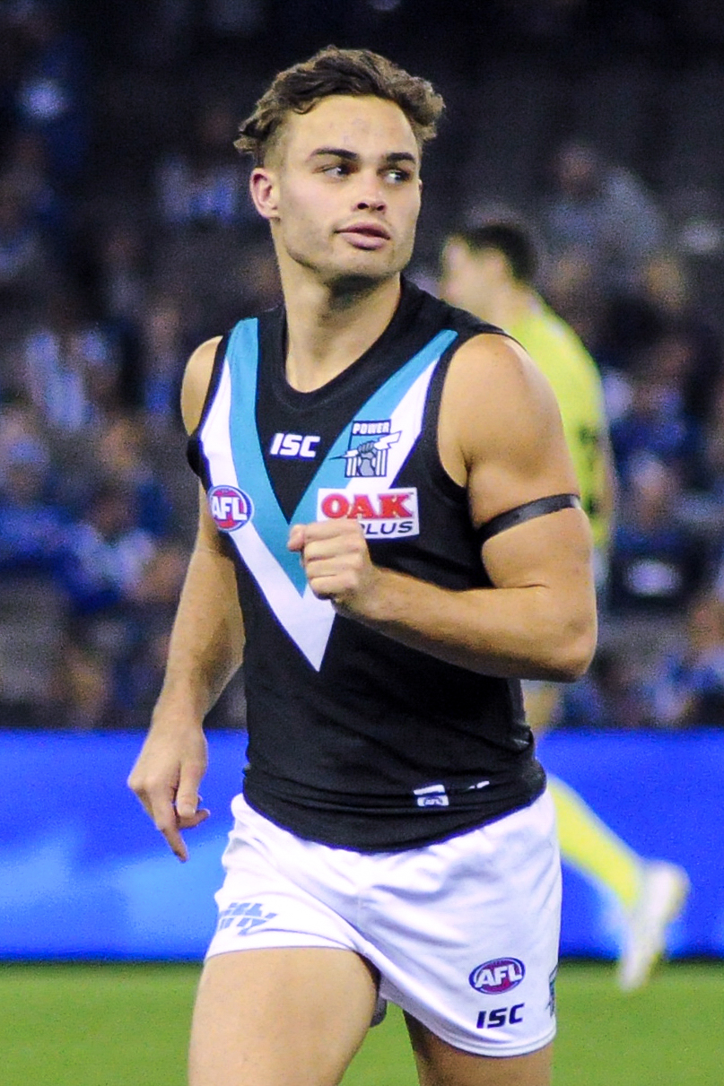 Karl Amon during the AFL round six match between North Melbourne and Port Adelaide on Saturday, 28 April 2018 at Etihad Stadium in Melbourne, Victoria.